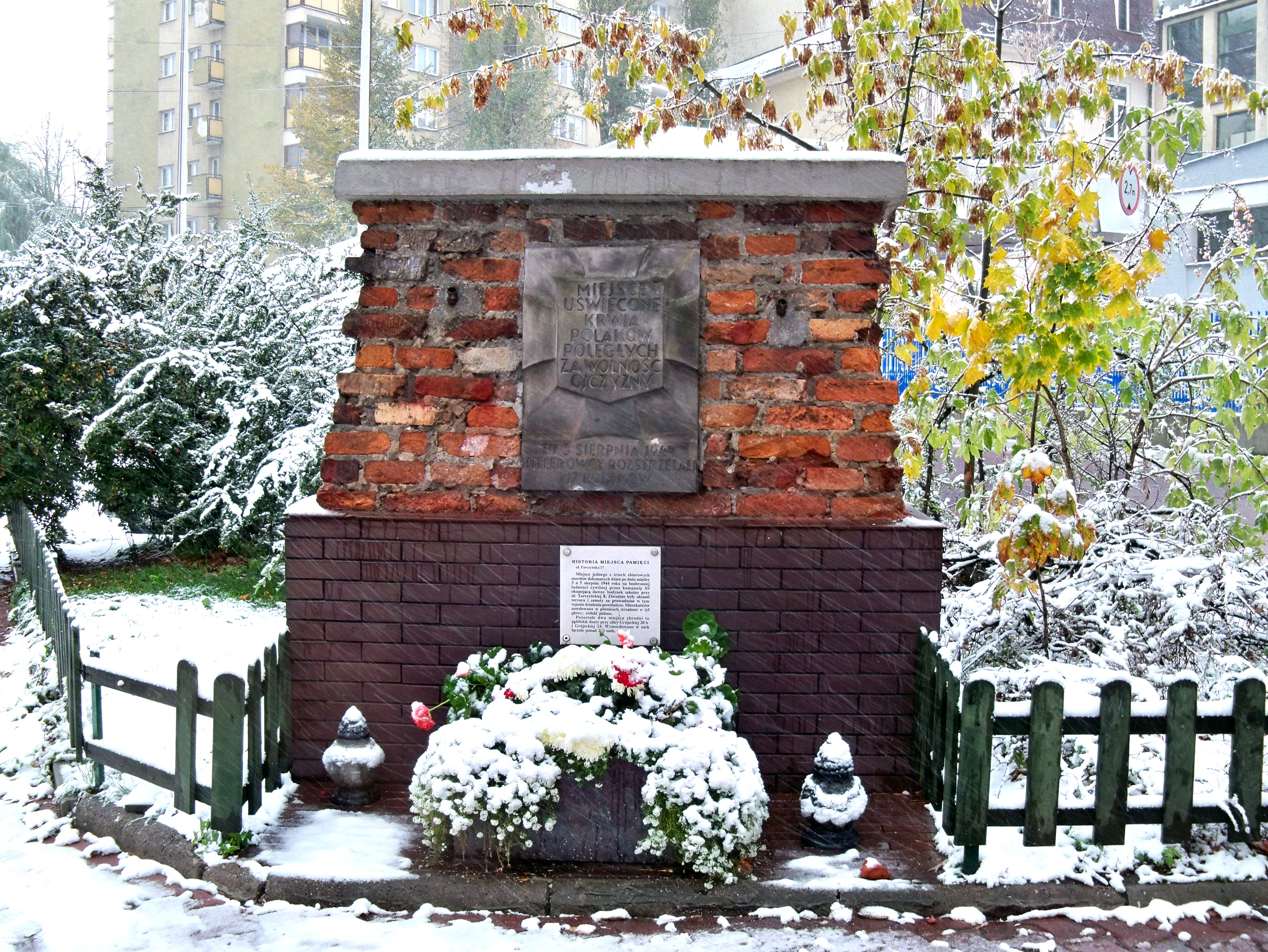 Plaque at the corner of Tarczyńska Street and Daleka Street in Warsaw’s district Ochota, commemorating 17 Polish civilians murdered in this place by Nazi Germans on 3rd August 1944 (first days of Warsaw Uprising).